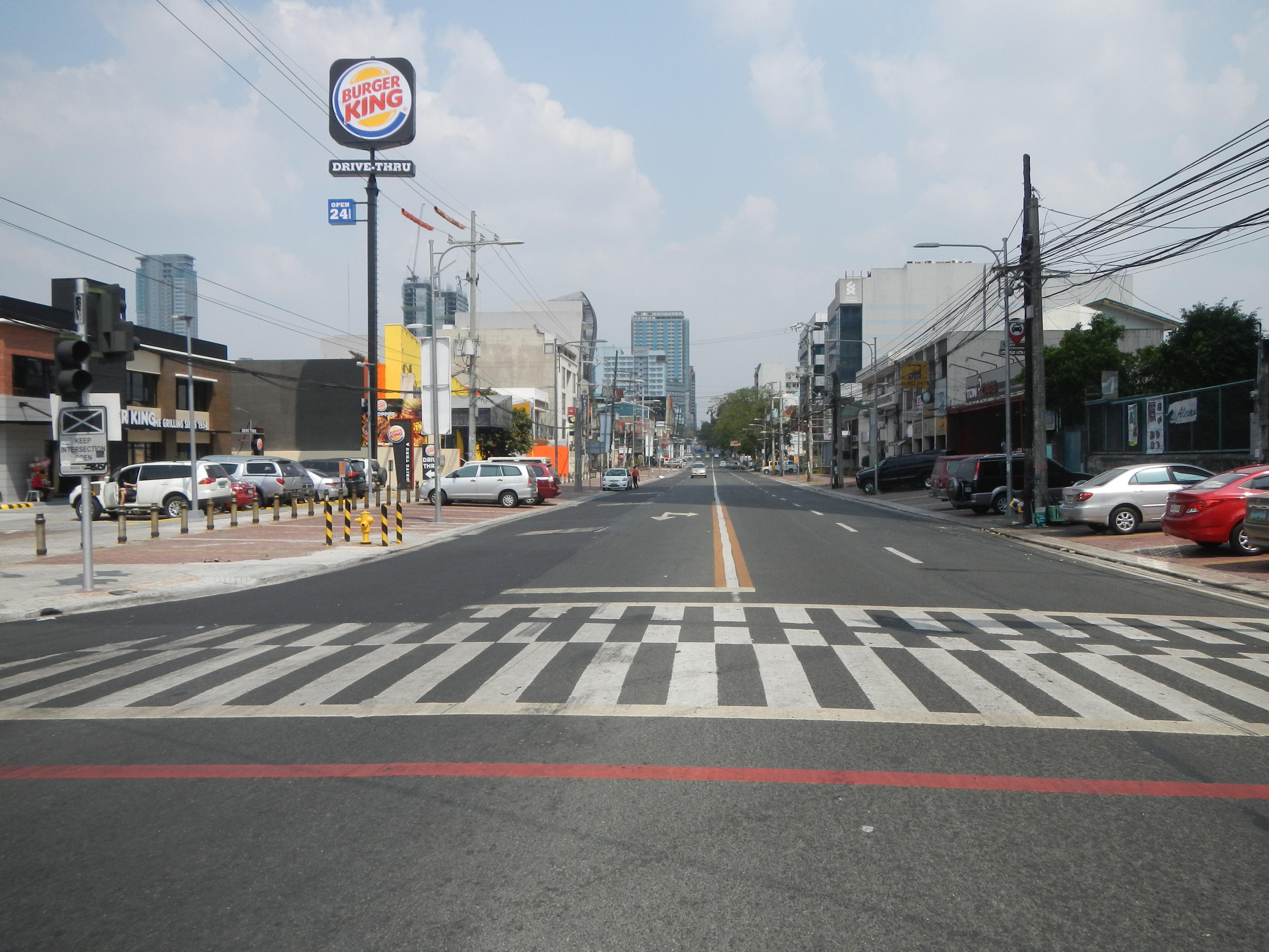 Burger King restaurants in Quezon City, Timog and Panay Avenues, corner Barangay South Triangle, Quezon City, District 4 Barangays of Quezon City South Triangle, Paligsahan or Roces District 1, Laging Handa District 4 or Boy Scout Area, in Mother Ignacia Avenue, Sgt. Esguerra Avenue, beside Camelot Hotel, in Timog Avenue, Timog Avenue, and Panay Avenue, Torre Venezia Hotel-Suites, Saint Paul the Apostle Parish Church, Blessed on January 26,1991, Camelot Hotel, Quezon_City).